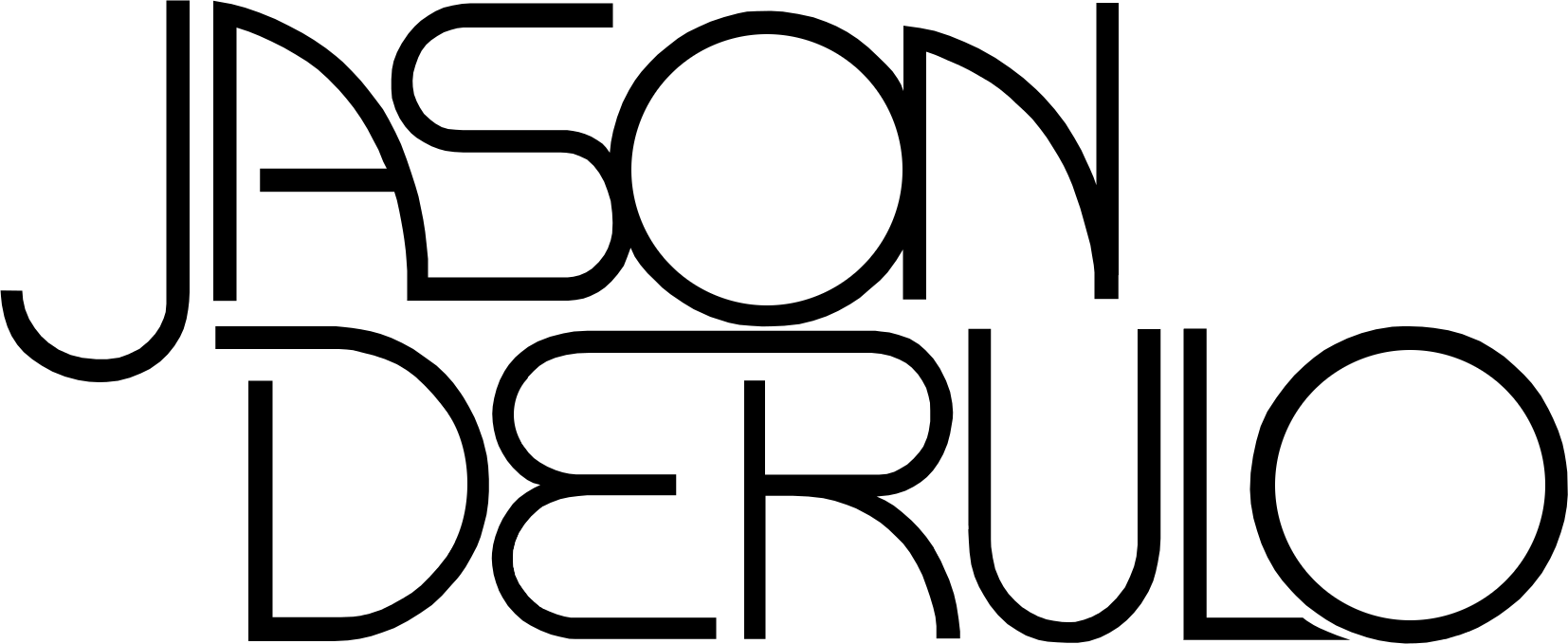 Jason Derulo